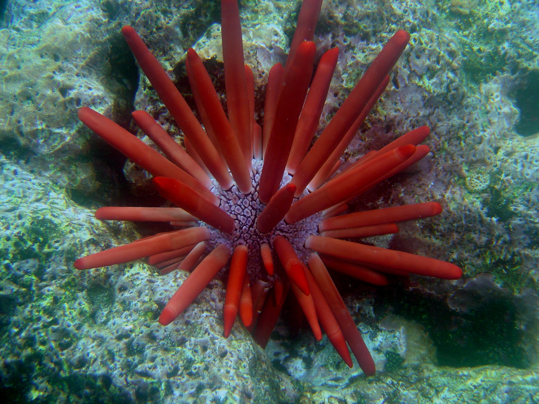 Sea urchin (Heterocentrotus mamillatus) Image ID: reef0777, NOAA's Coral Kingdom Collection Location: Hawaii, Maui